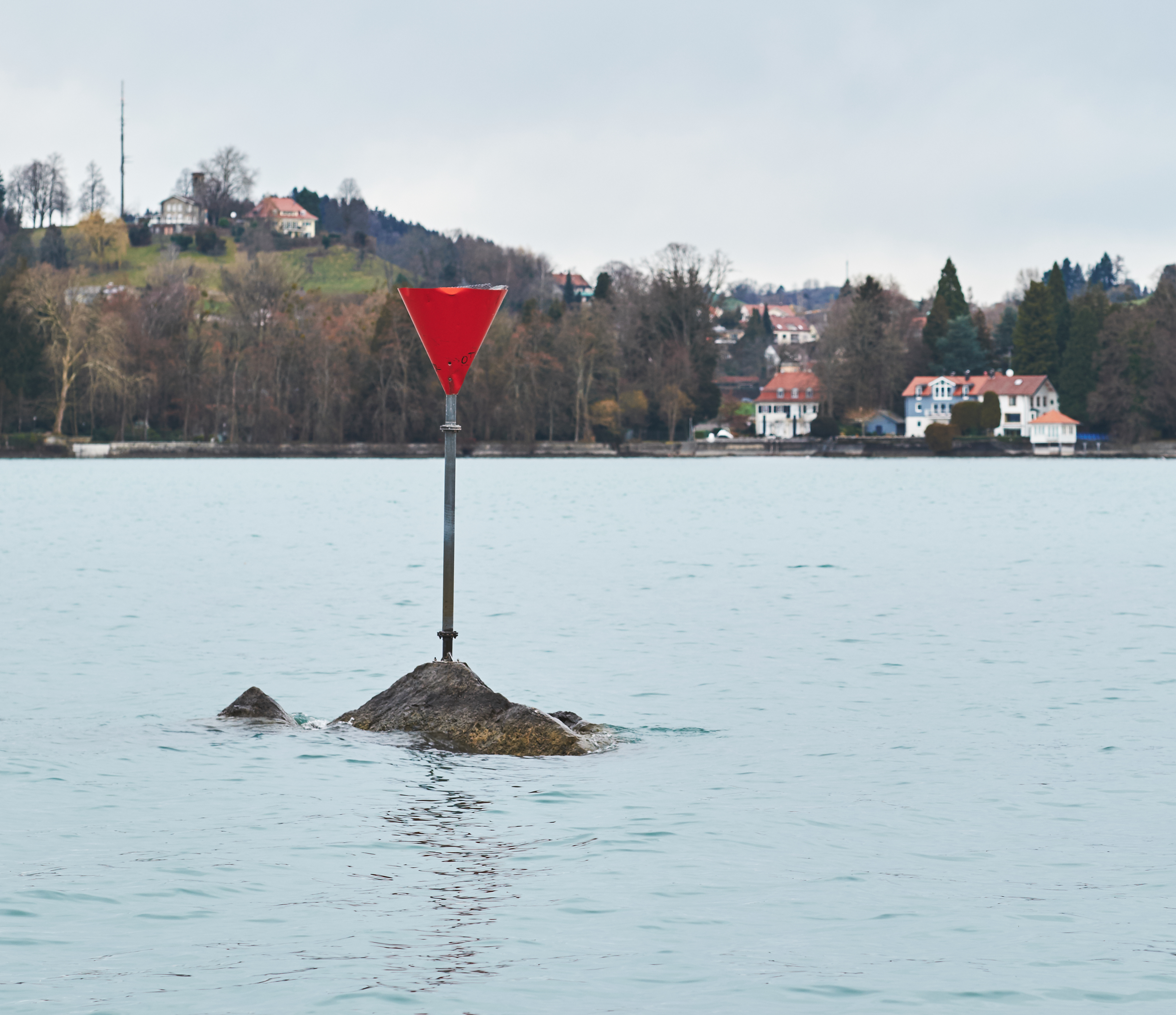 The rock Hexenstein (Stone of the witches), Lindau, Lake Constance, Bavaria, Germany, at low water level, from the Hintere Insel (closest point at a distance of well 40 meters), looking north to the shores of Schachen